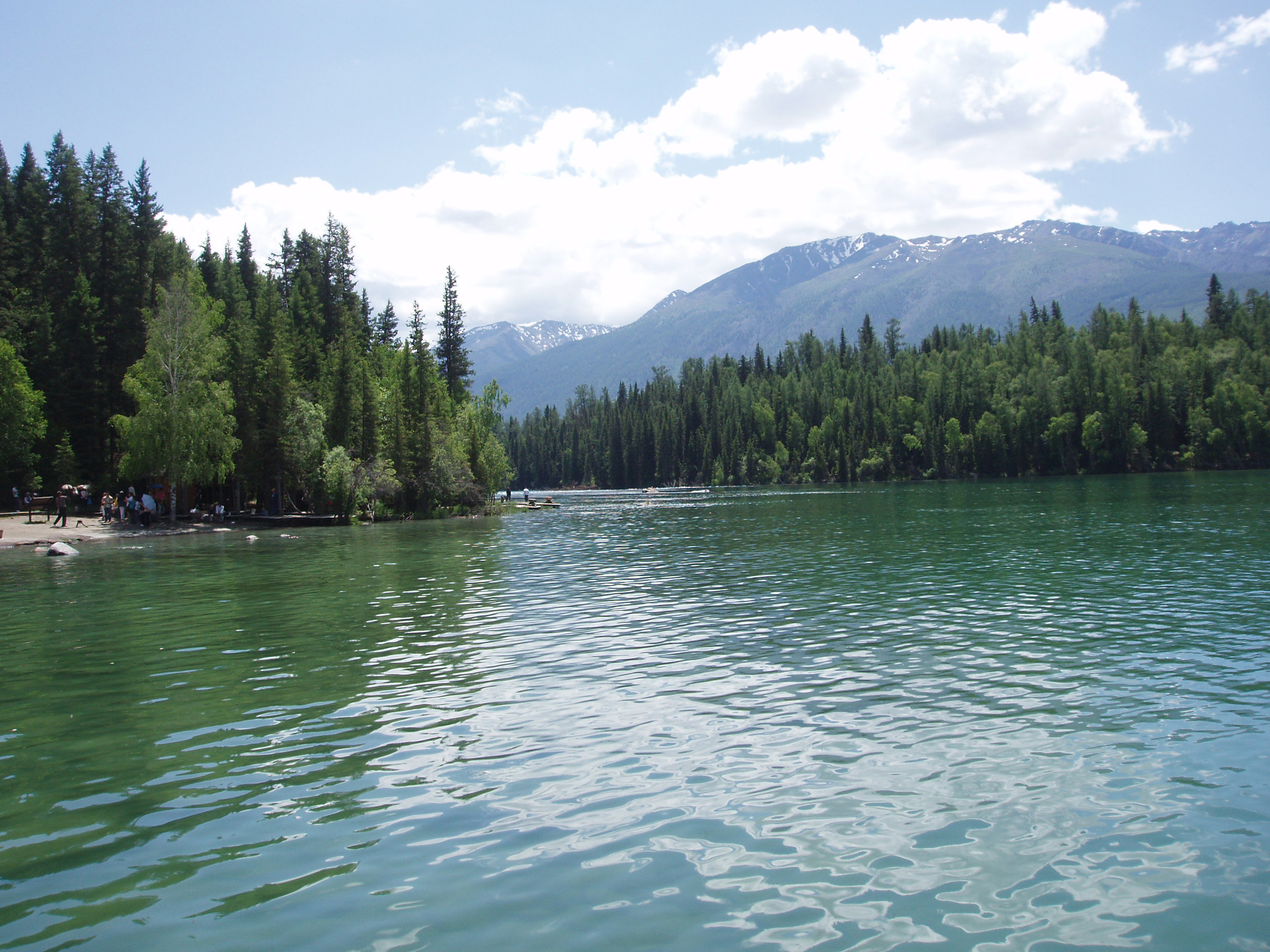 Lake Kanas in the Altai Mountains. Located in the Xinjiang Uygur Autonomous Region of western China, Central Asia.